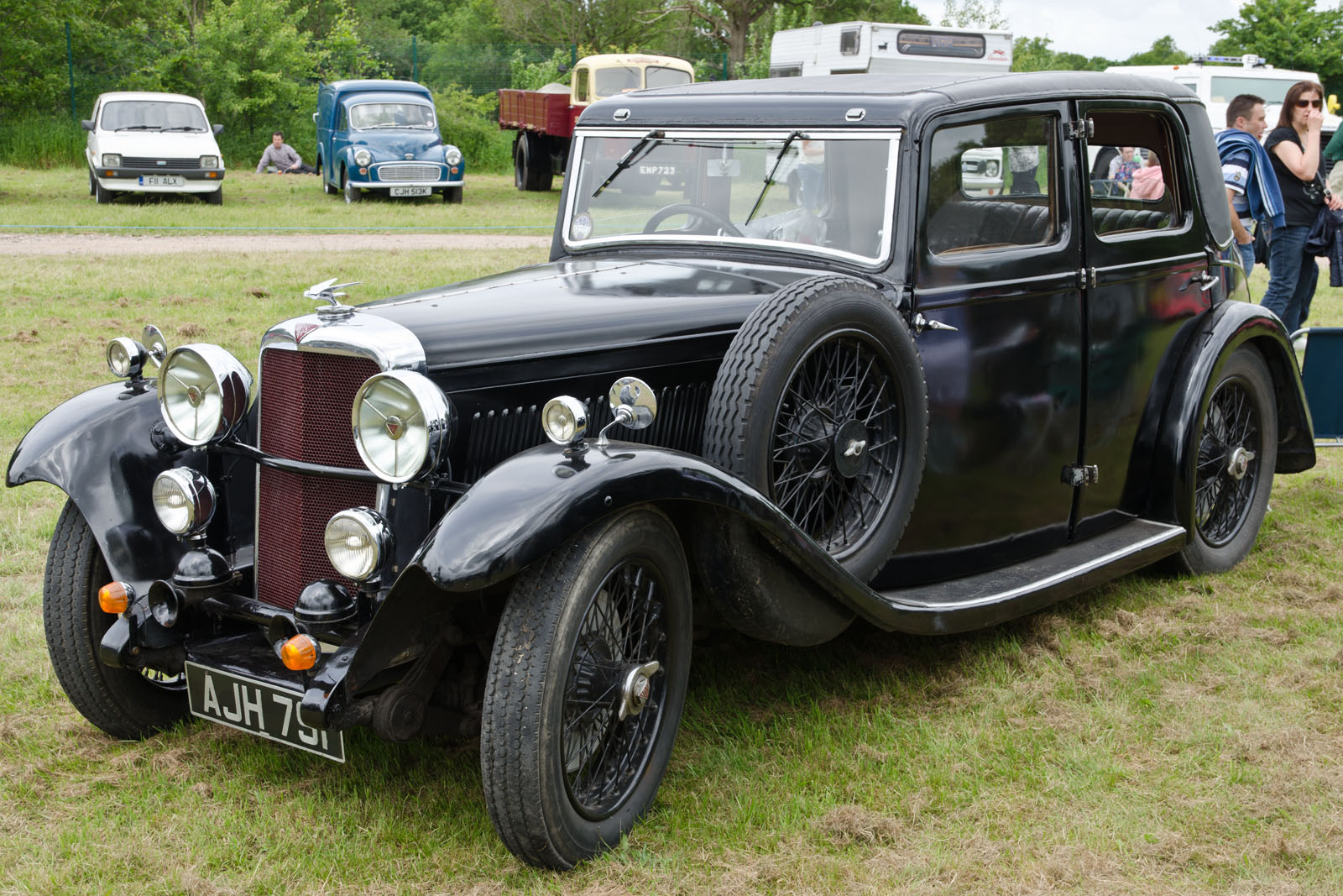 Alvis Firebird 1933Trentham Gardens Classic Car Show 16/06/2013(DVLA) First registered 1 May 1935, 1842cc